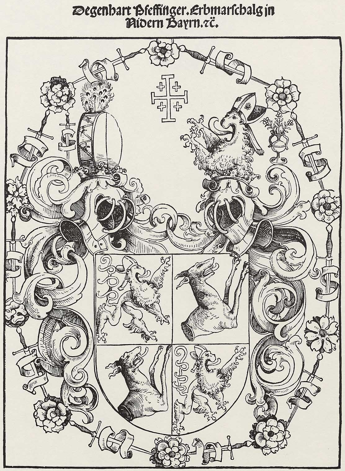 Coat of Arms of Degenhart Pfeffinger (xylography by Lucas Cranach the Elder)